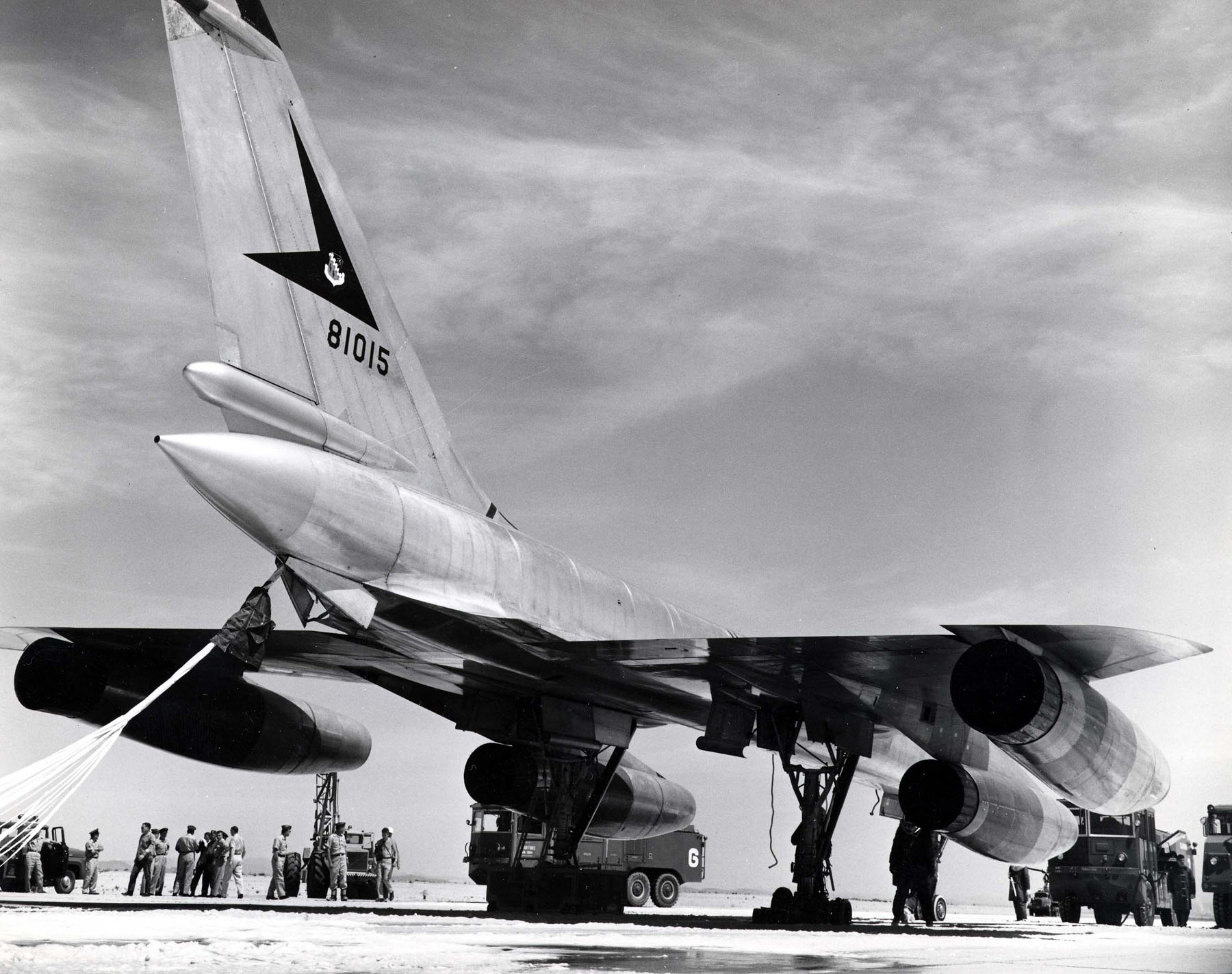 Convair RB-58A Hustler 3-4 rear view (SN 58-1015). Photo taken on April 13, 1960, after the right main landing gear (tires) failed